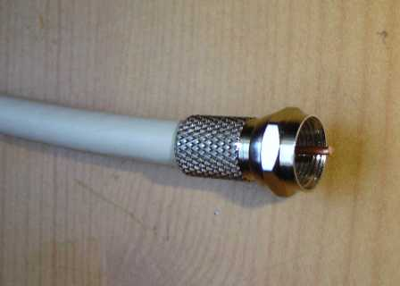 Type F connector and 75 ohm RG-8 coaxial cable.